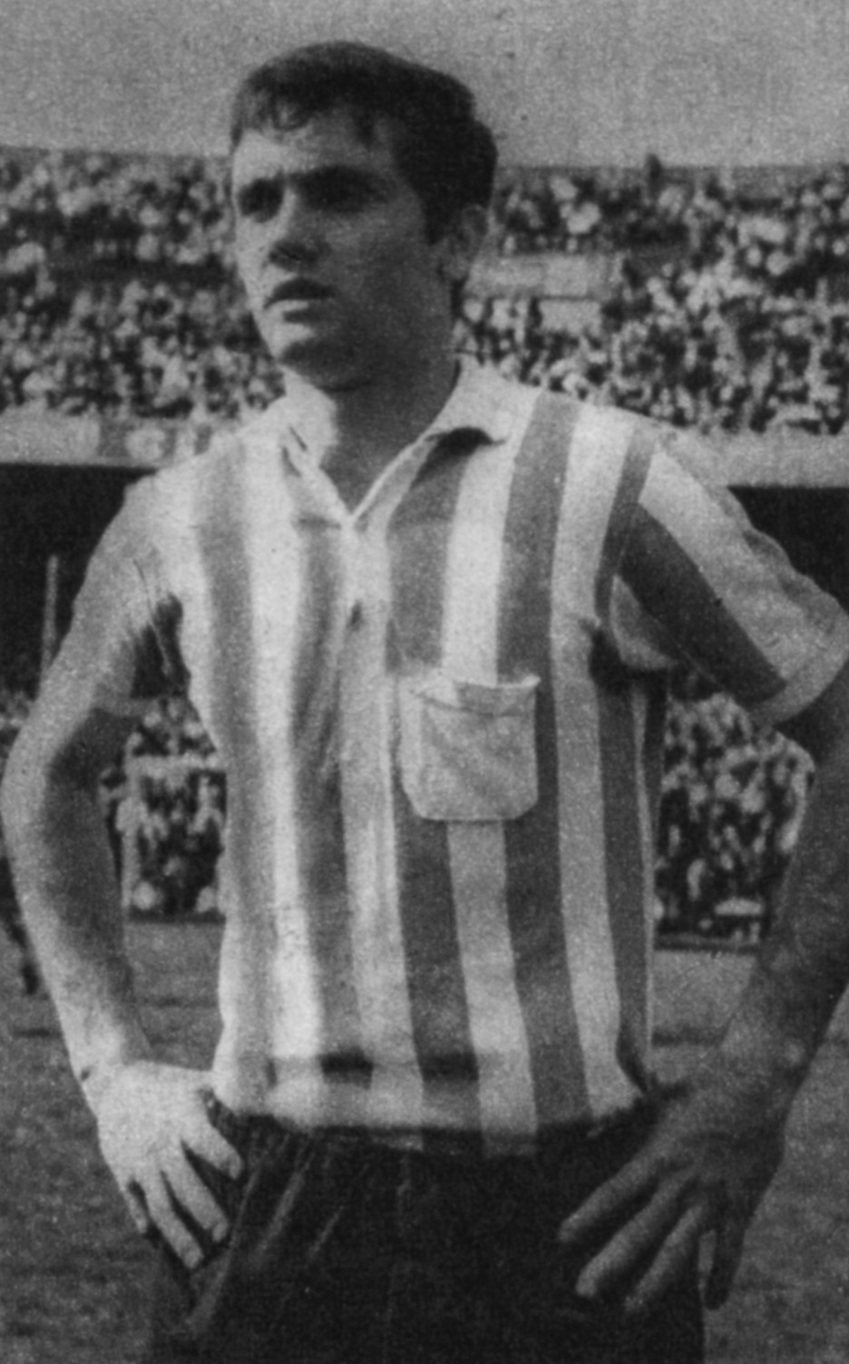 Perfumo posing for El Grafíco magazine, originally published in November 1967.